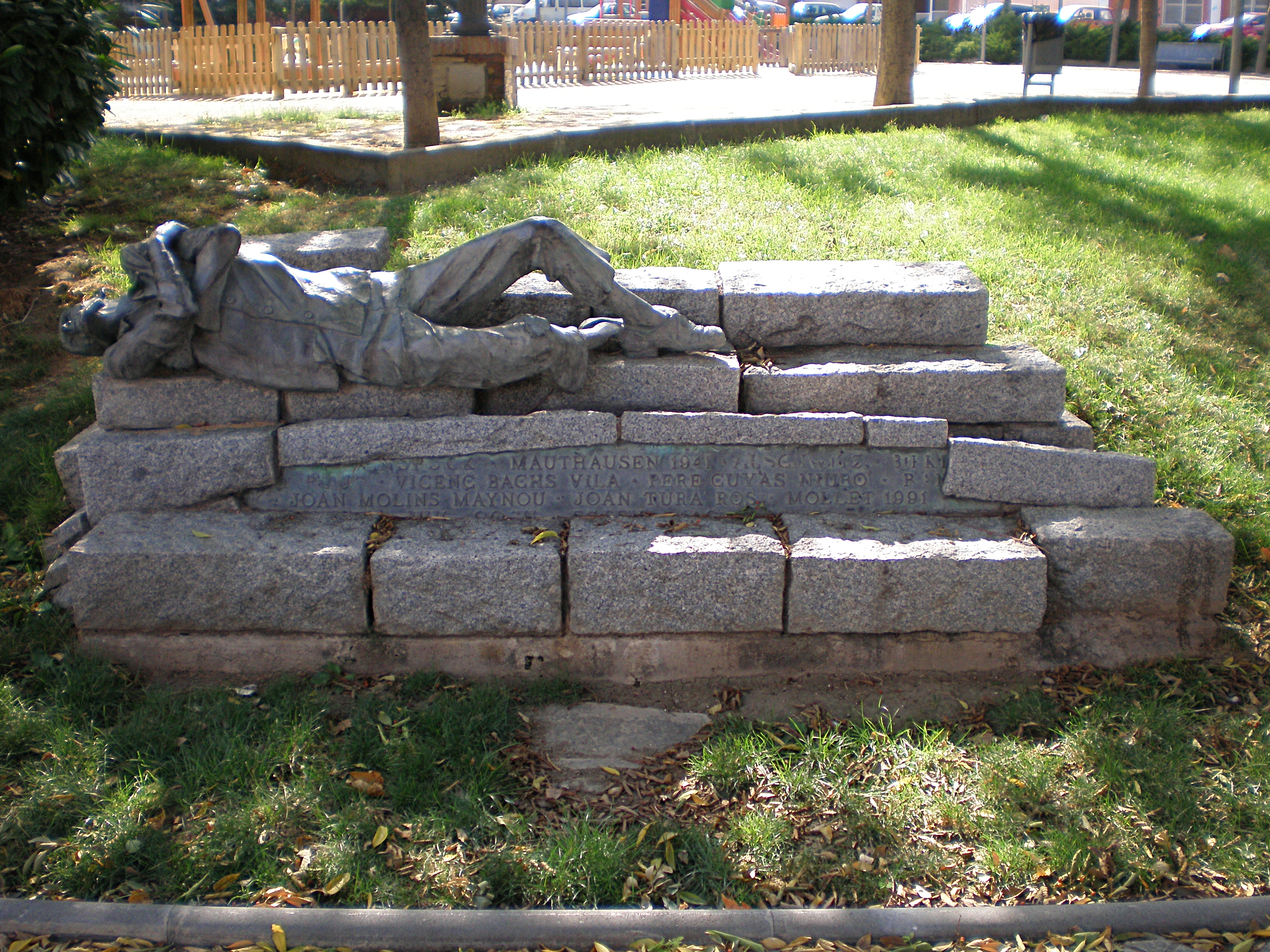 Monument in memory of the dead molletans (Mollet del Vallès people in catalan language) in Mauthausen in Mollet del Vallès, Catalonia, Spain. See also: Konzentrationslager Mauthausen.